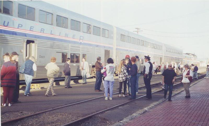 Amtrak's Pioneer stops at La Grande, Oregon, on its way east. I took the photo during the train's second-to-the-last eastbound trip in May 1997.